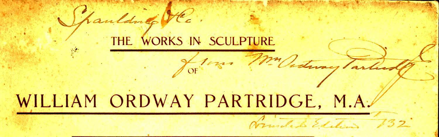 scan of a small part of the cover of 1914 publication from the United States. Probable Partridge signature on his 1914 catalog